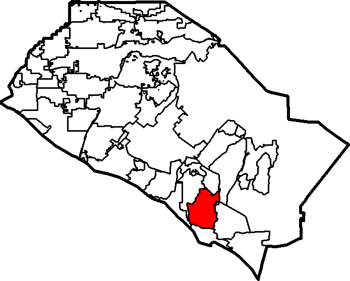 Location of Laguna Niguel, California within Orange County, California. Created with data from the U.S. Census Bureau. Category:California city locator maps